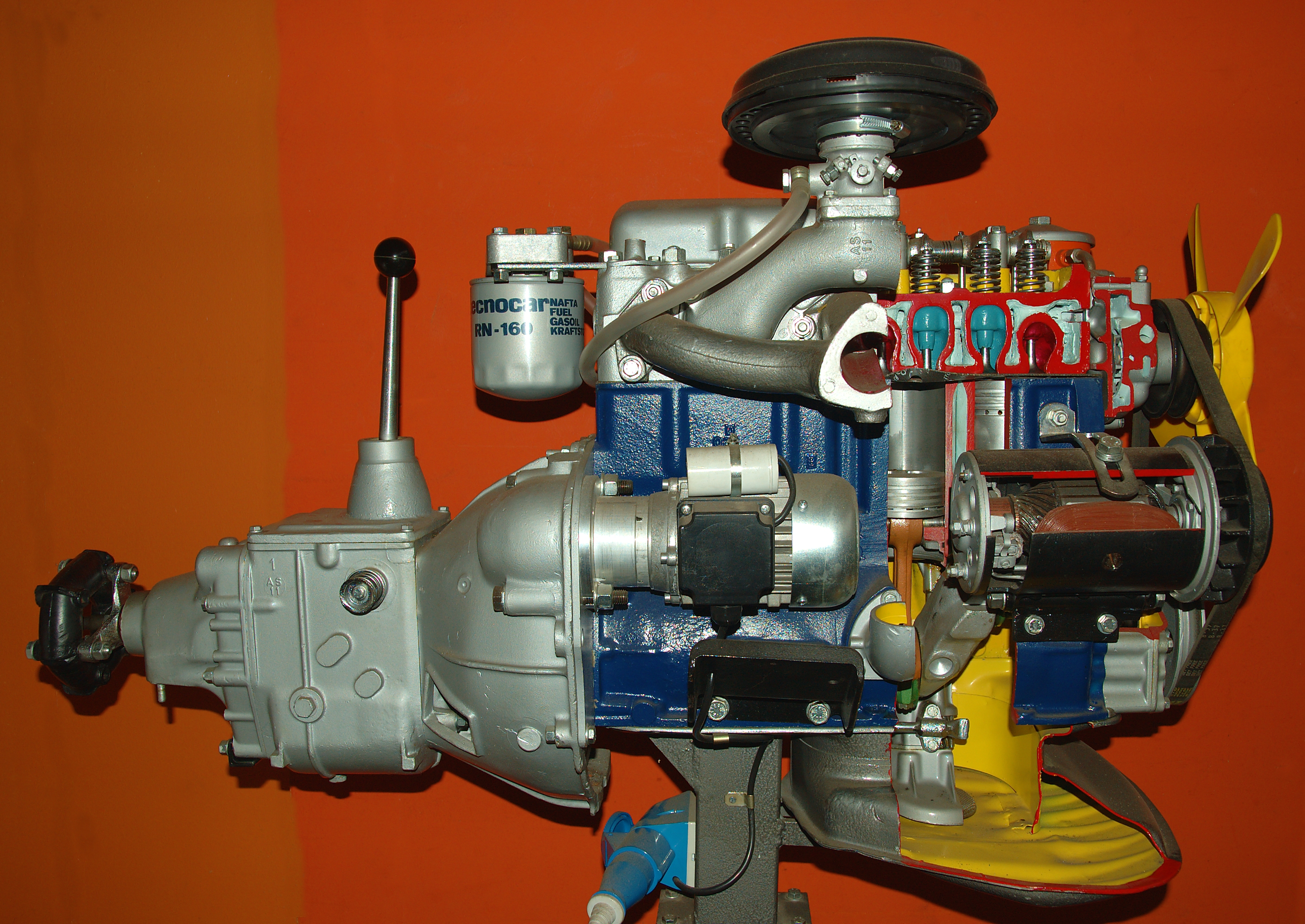 School model of engine.